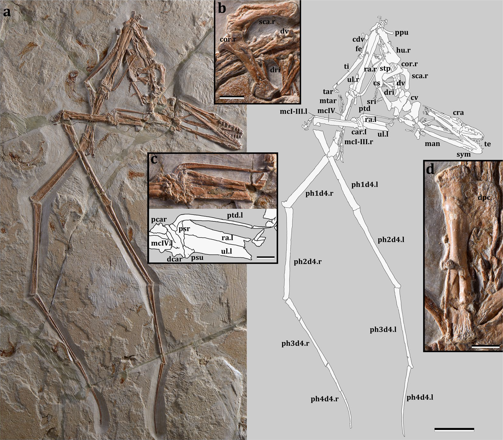 Mimodactylus libanensis gen. et sp. nov. (a) Photo and drawing of the complete specimen. (b) Close up of scapula and coracoid. (c) Detail of the wrist, showing the relation of the pteroid and the carpus. (d) Detail of the humerus. Scale-bars, a: 50 mm; b-d: 10 mm. Abbreviations. car: carpus; cdv: caudal vertebrae; cor: coracoid; cra: cranium; cs: cristospine; cv: cervical vertebrae; d: dentary; dcar: distal carpals; dpc: deltopectoral crest; dri: dorsal ribs; dv: dorsal vertebrae; fe: femur; hu: humerus; man: mandible; mcI-III: first to third metacarpals; mcIV: wing metacarpal; mtar: metatarsals; pcar: proximal carpals; ph1d4: first wing phalanx; ph2d4: second wing phalanx; ph3d4: third wing phalanx; ph4d4: fourth wing phalanx; ppu: prepubis; ptd: pteroid; ra: radius; sca: scapula; sri: sacral ribs; stp: sternal plate; sym: mandibular symphysis; tar: tarsus; te: teeth; ti: tibia; ul: ulna; the abbreviations ‘l’ and ‘r’ represents respectively left and right.